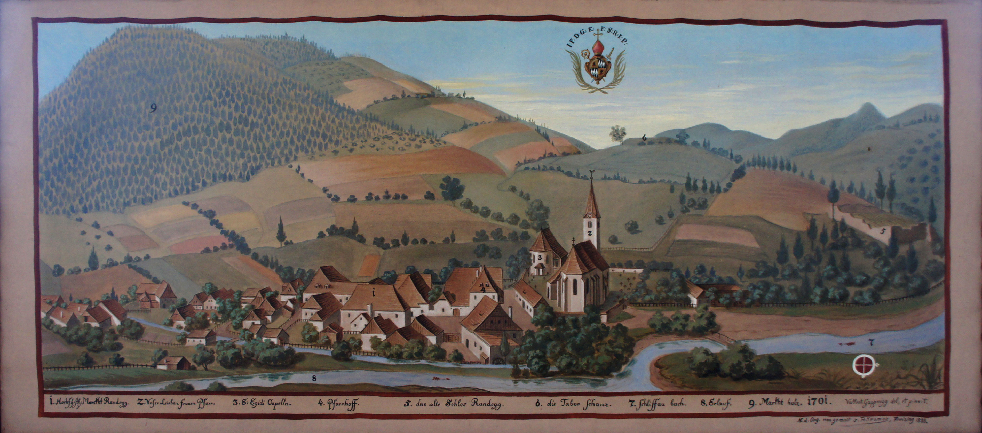 View of Randegg, Lower Austria. Part of a series of 32 paintings executed by Valentin Gappnigg between 1698 and 1702. Gappnigg had been commissioned by the prince-bishop of Freising, Johann Franz Eckher von Kapfing und Liechteneck, to paint views of the various possessions of the prince-bishopric. While the core territories of Freising were located in Bavaria, it also included several far-flung enclaves located inside Tyrol, Styria, Carinthia, Lower Austria and Carniola (now Slovenia).